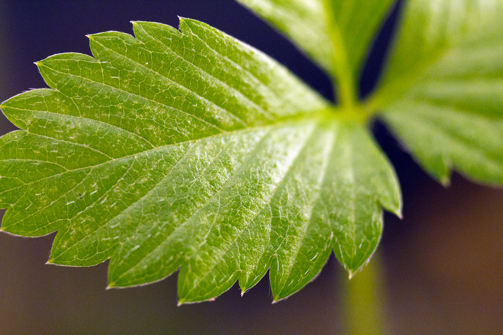 Alpine Strawberry Plant Macro close-up photography